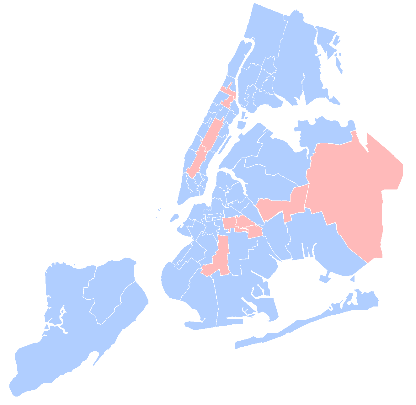 Partisan composition of the 148th New York Assembly (serving during 1925) in New York City. Information courtesy of the English Wikipedia.